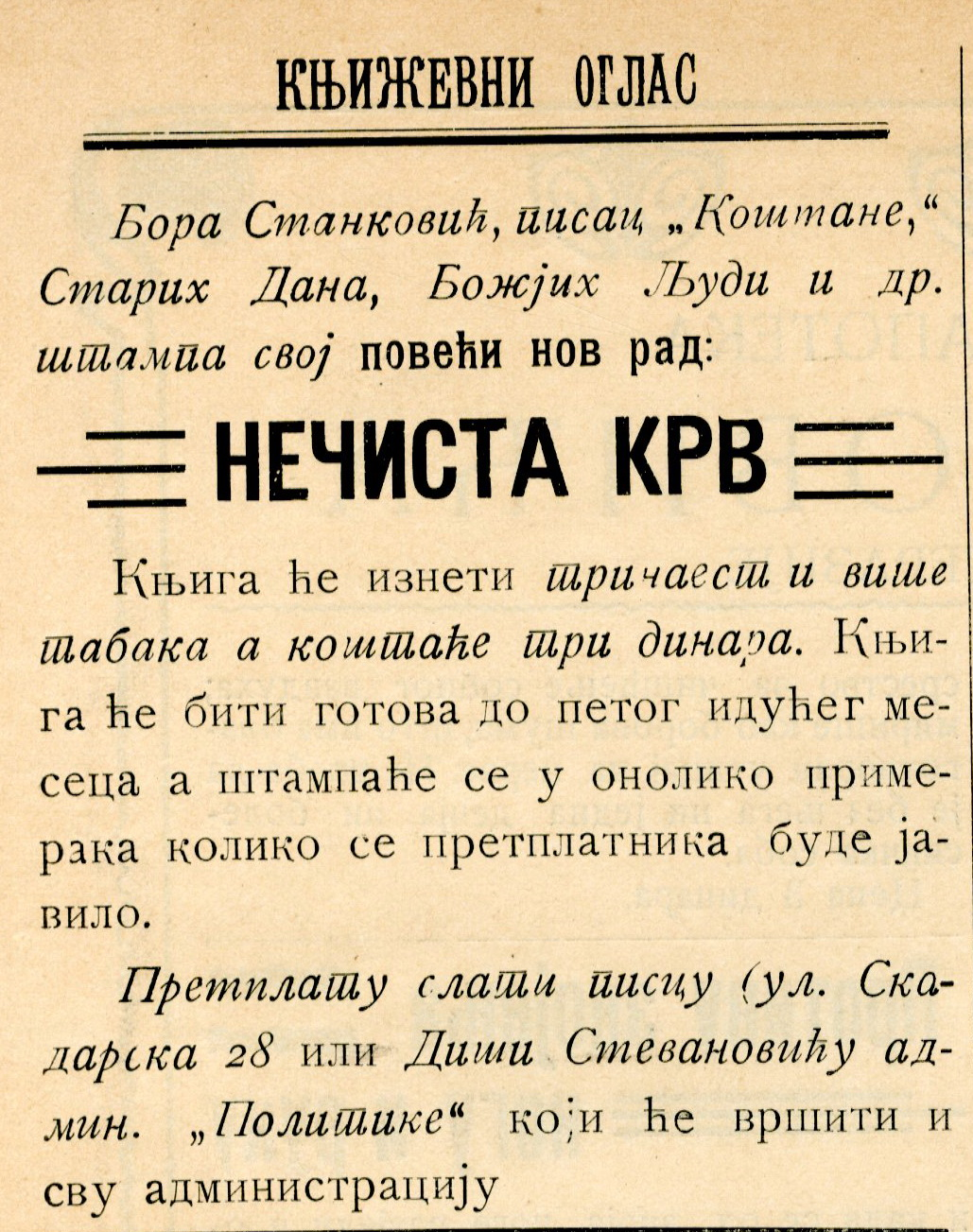 "Impure Blood" book press announcement